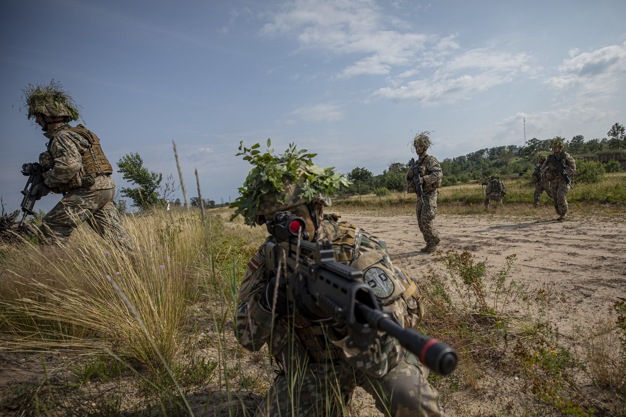 A Latvian Soldier from the Latvian National Guard’s 2nd Brigade, 25th Infantry Battalion provides security for a danger crossing during tactical training at the Camp Grayling Joint Maneuver Training Center, Mich., during Northern Strike 19, July 24, 2019.